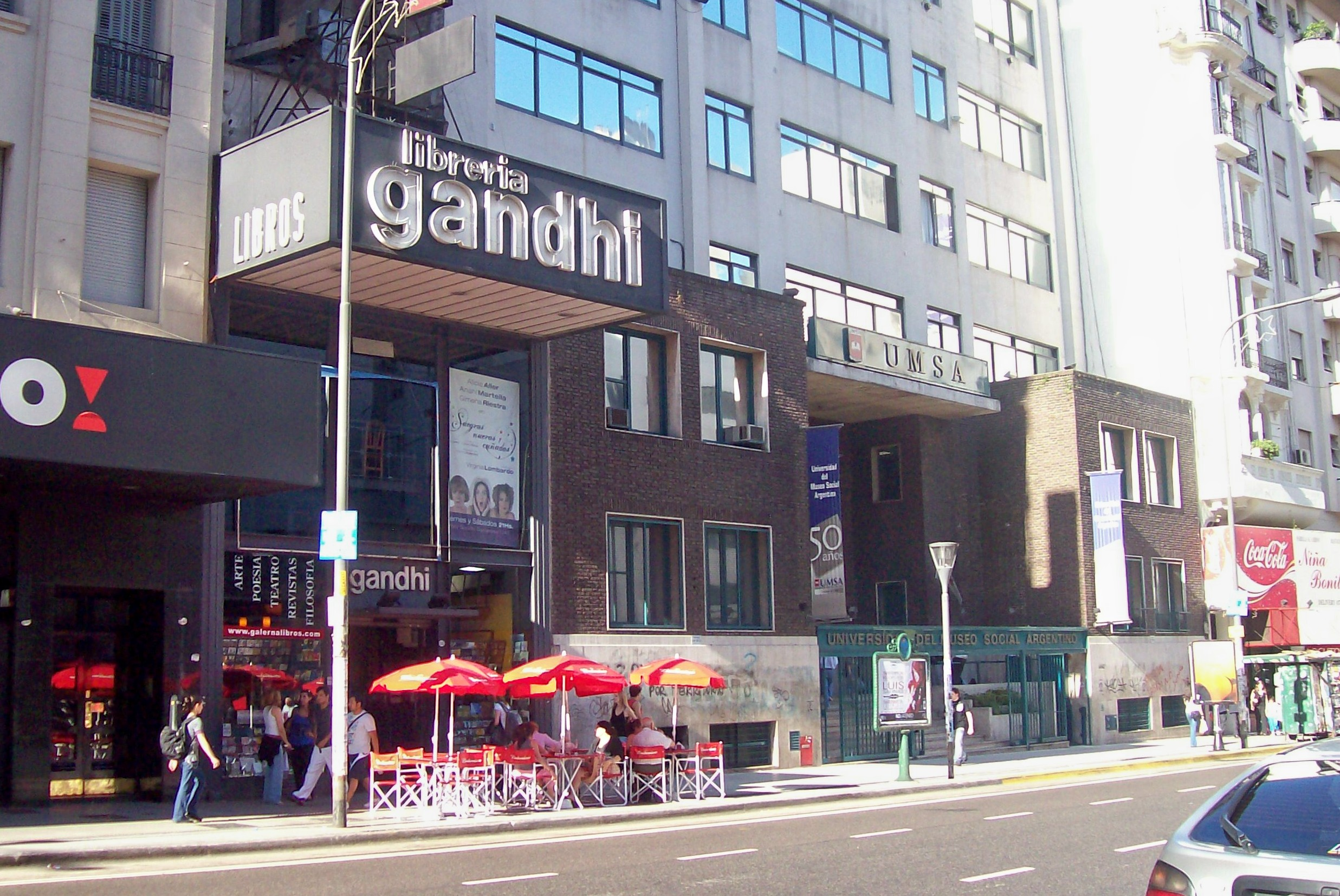 The former Gandhi bookstore and the Social Museum University of Argentina, founded in 1956. 1743 Corrientes Avenue, Buenos Aires.